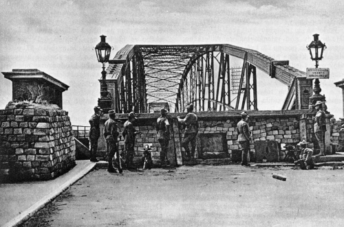 Czechoslovak legionnaires of Italy occupied most in Komárno (May 1919)